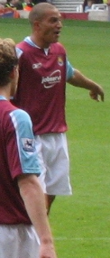 Bobby Zamora. Image cropped from original at flickr.